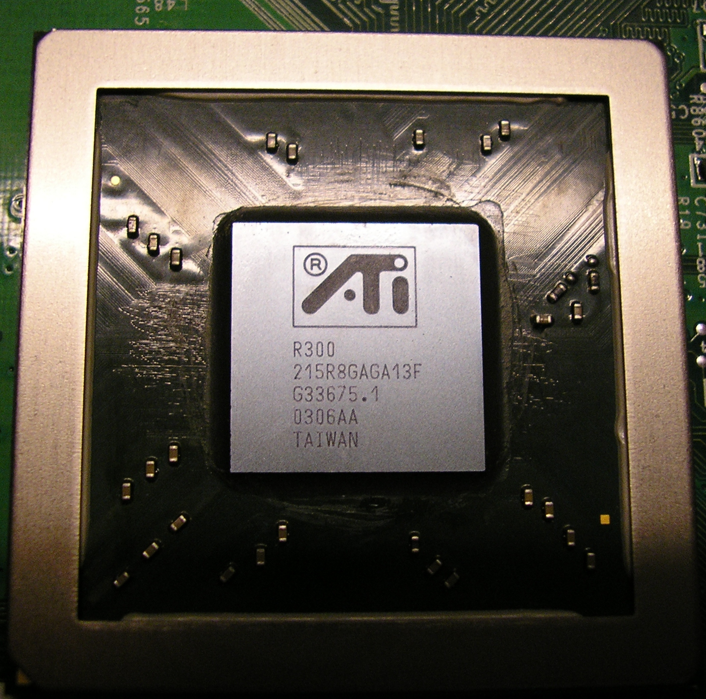 ATI R300 GPU on a Medion Radeon 9600TX card